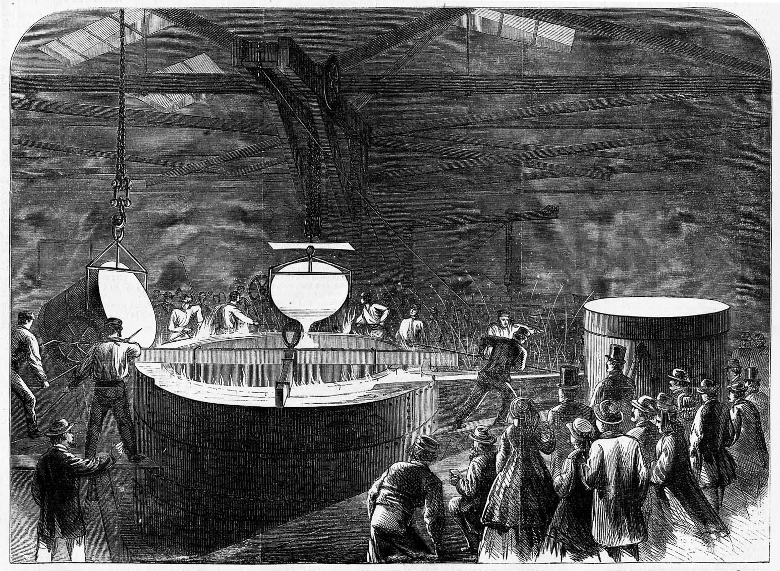 Casting the giant marine engine cylinder for either the steamboat Bristol or her sister ship Providence (probably Bristol) at the Etna Iron Works of New York on February 3, 1866. These 110-inch cylinders were the largest-bore marine engine cylinders ever cast in the United States at the time. The illustrator appears to have understated the diameter of the cylinder bore as it only looks to approximate the height of the men surrounding it (5 to 6 feet) when in fact the bore was more than 9 feet in diameter.